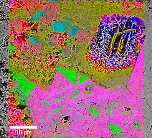 Correlative Raman-SEM image of a hematite acquired with the RISE micrsocope.